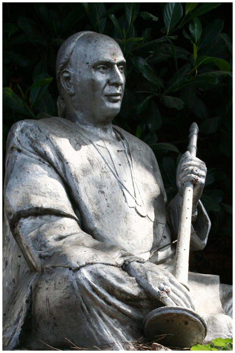 திருவிடைமருதூர் வீருஸ்வாமி பிள்ளை